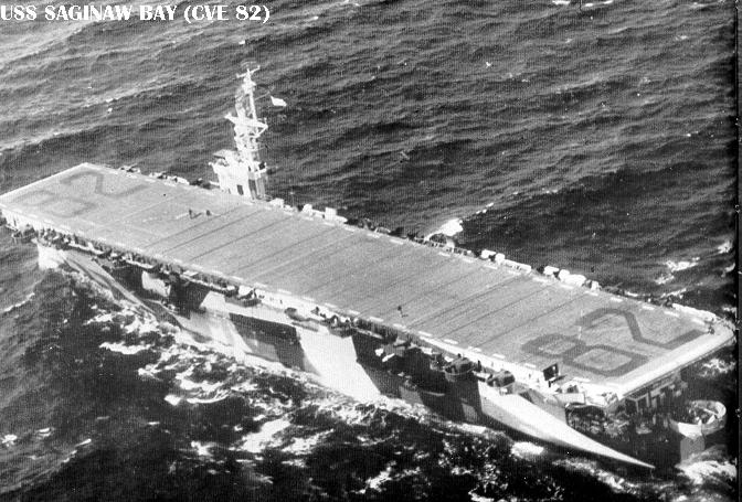 The U.S. Navy escort carrier USS Saginaw Bay (CVE-82) underway, circa 1944.